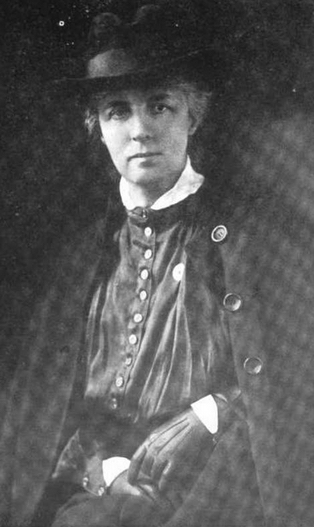 Black-and-white photograph of a white woman wearing leather gloves, a hat and cape over a nurse's uniform, from 1921.